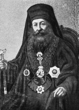 Ecumenical Patriarch Gregorius VI